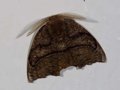 _DSJ1421 Amphitorna purpureofascia